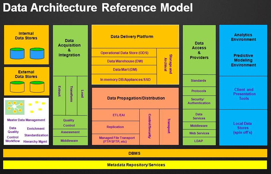 This picture illustrate the Data Architecture Reference Model we've designed. The methodology and its illustration are fully ours and now considered as public.